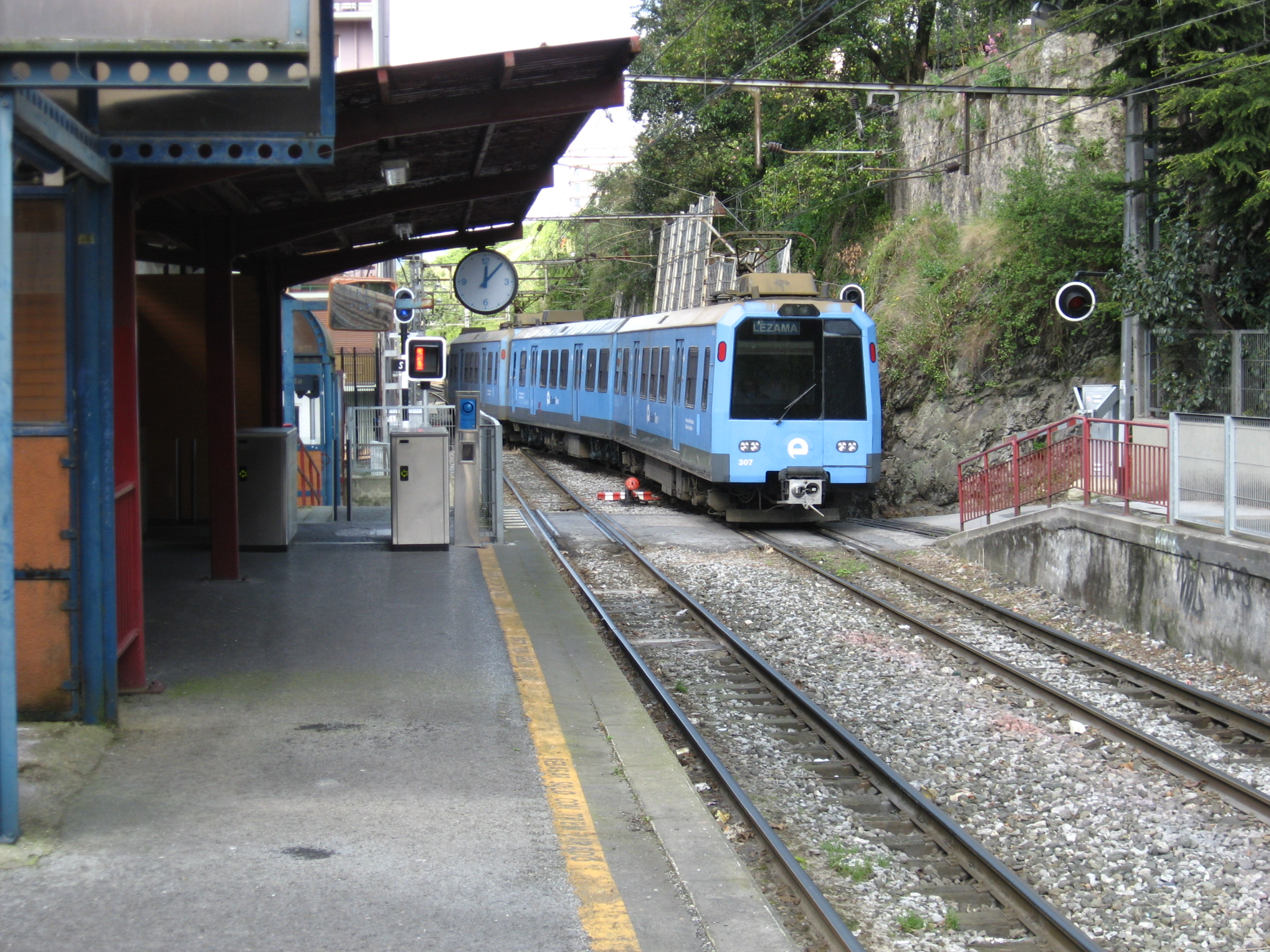 Euskotren turning at Deusto endpoint. The lines continues and connects with the metro.